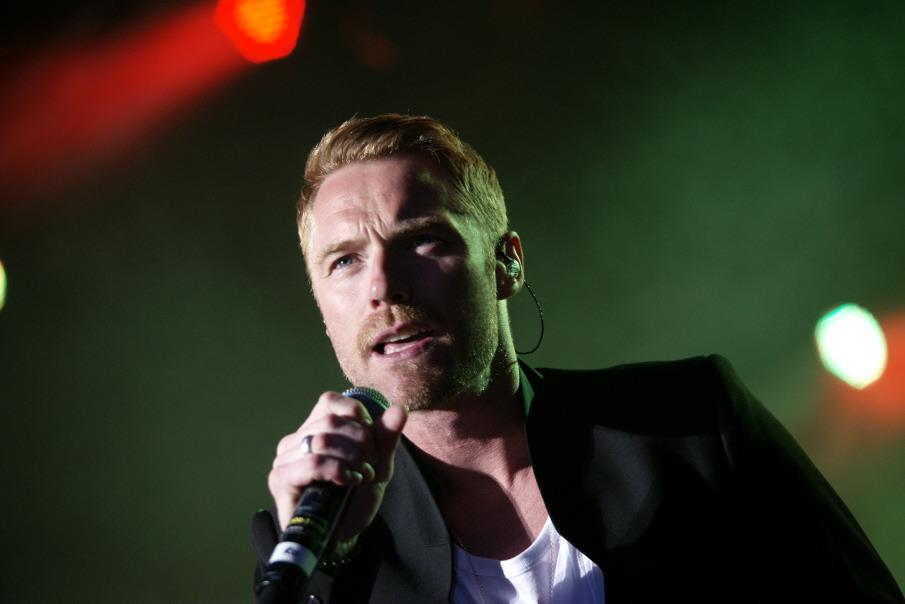 Ronan Keating performing on Summarfestivalurin 3rd August 2012, Klaksvík, Faroe Islands